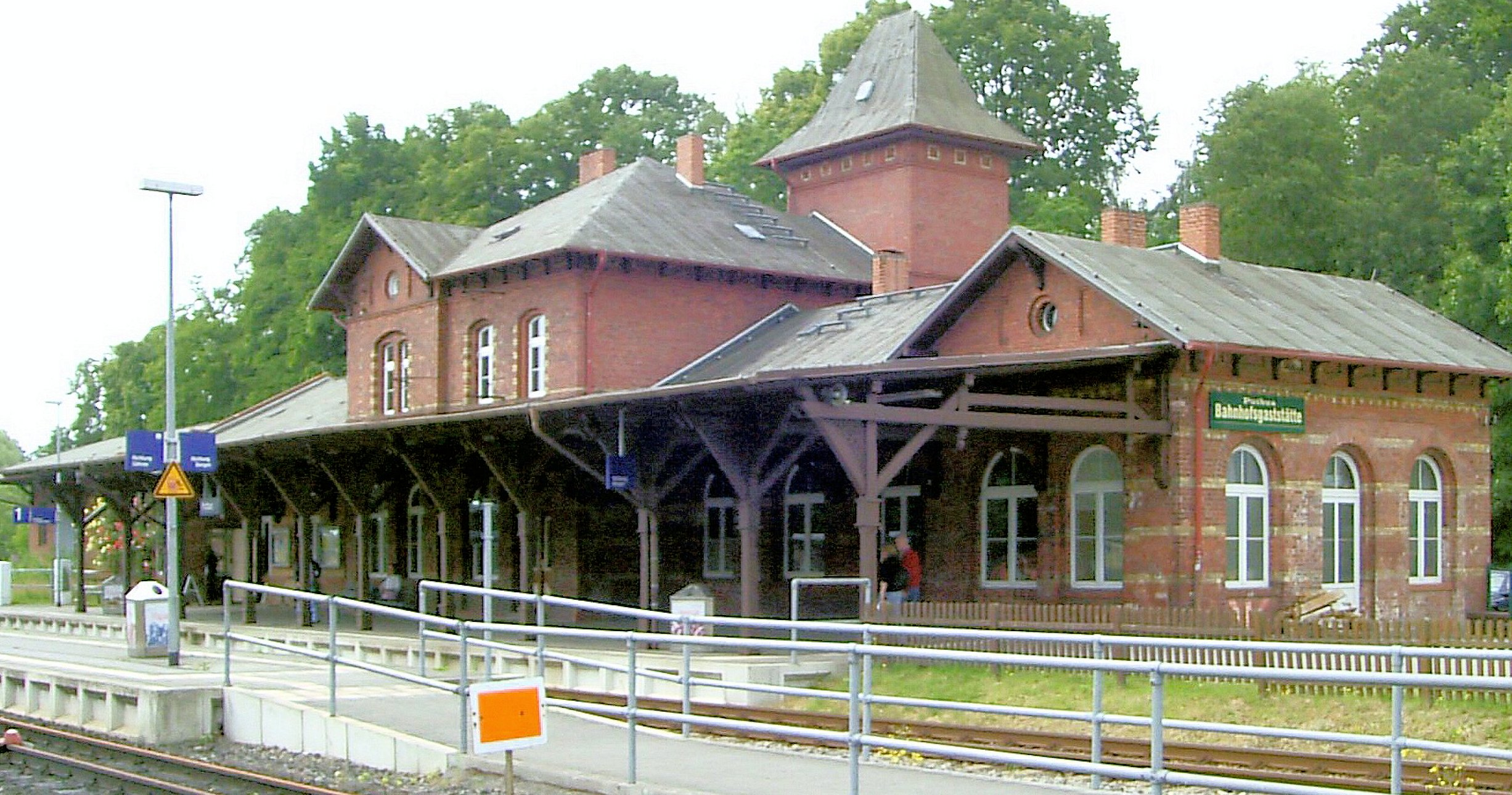 Railway station Putbus